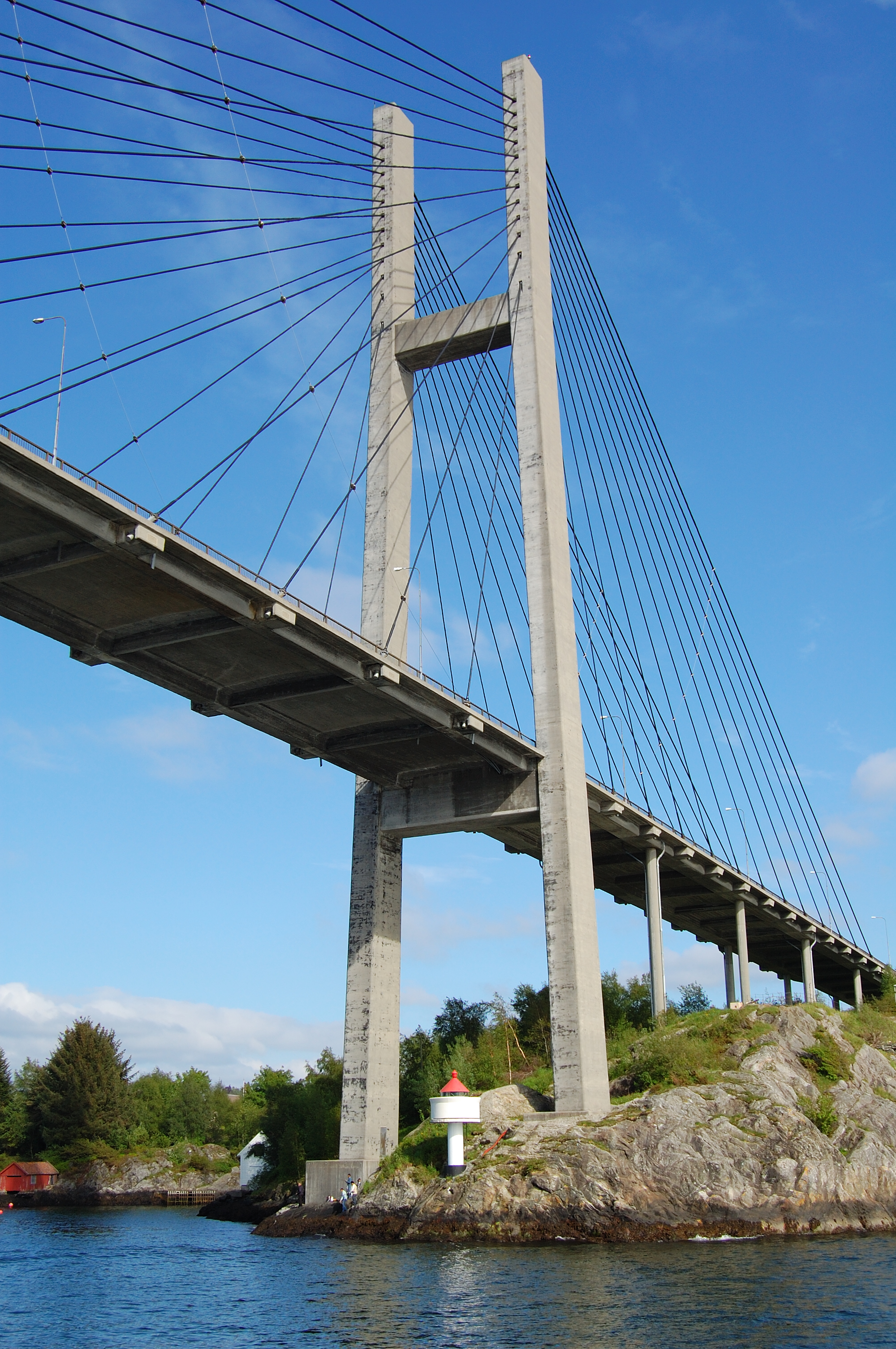 Nordhordland Bridge in Hordaland, Norway.